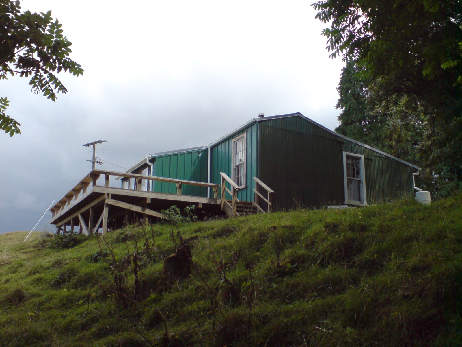 A larger bach in New Zealand built from a smaller original farm house.